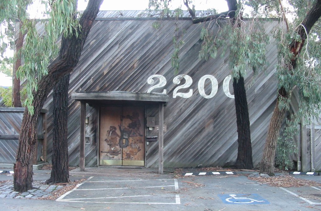 Snapshot of the Record Plant, a.k.a. The Plant, a recording studio in Sausalito, California. Photo shows the front of the building, including the double doors and the number 2200 for the address, 2200 Bridgeway.